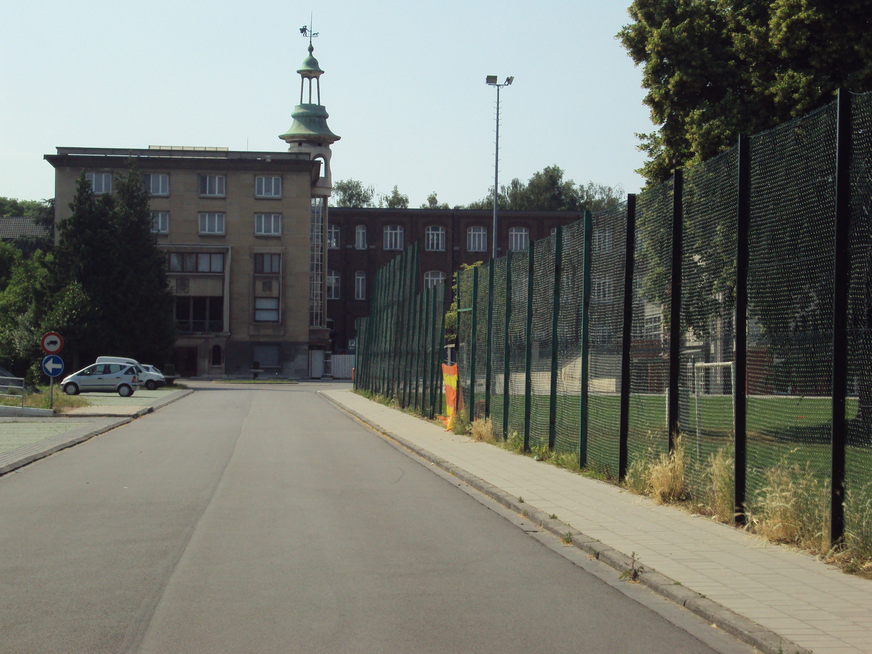 Own work